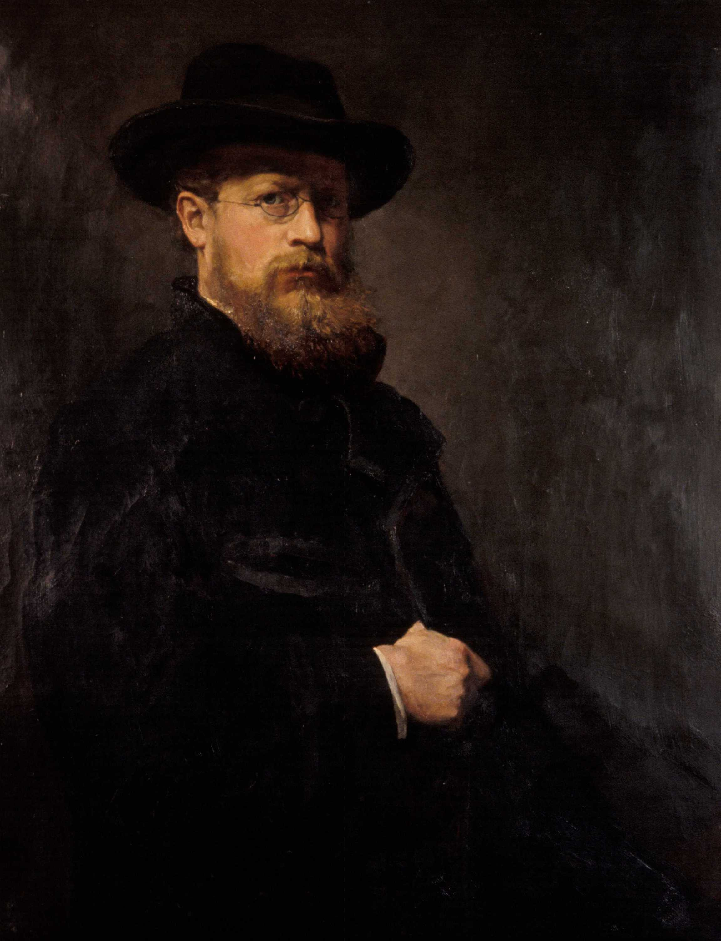 From Henrik Ibsens home.